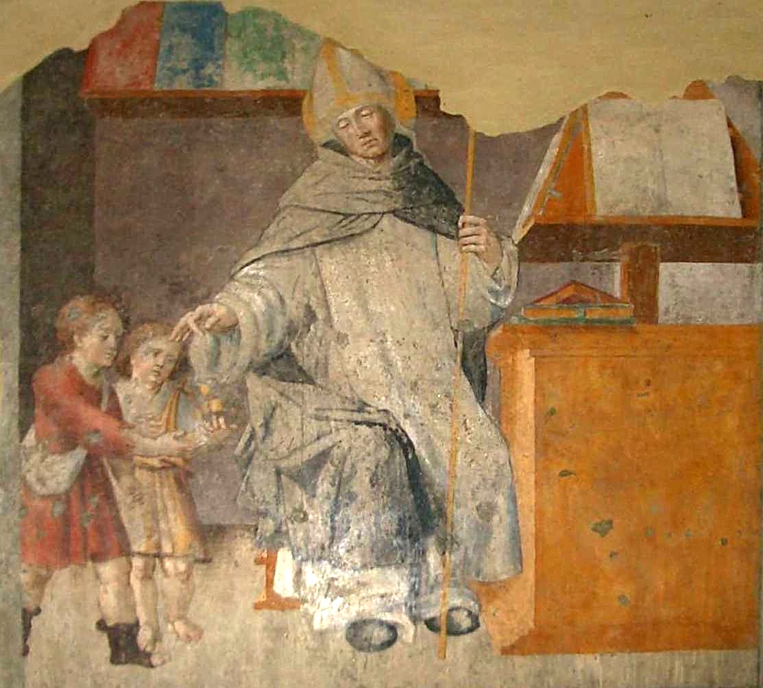 Artist = Giovanni Martino Spanzotti Title = The alms of Sant'Antonio Pierozzi Year = 1523 Technique = Fresco Location = Church of San Domenico, Torino, Italy